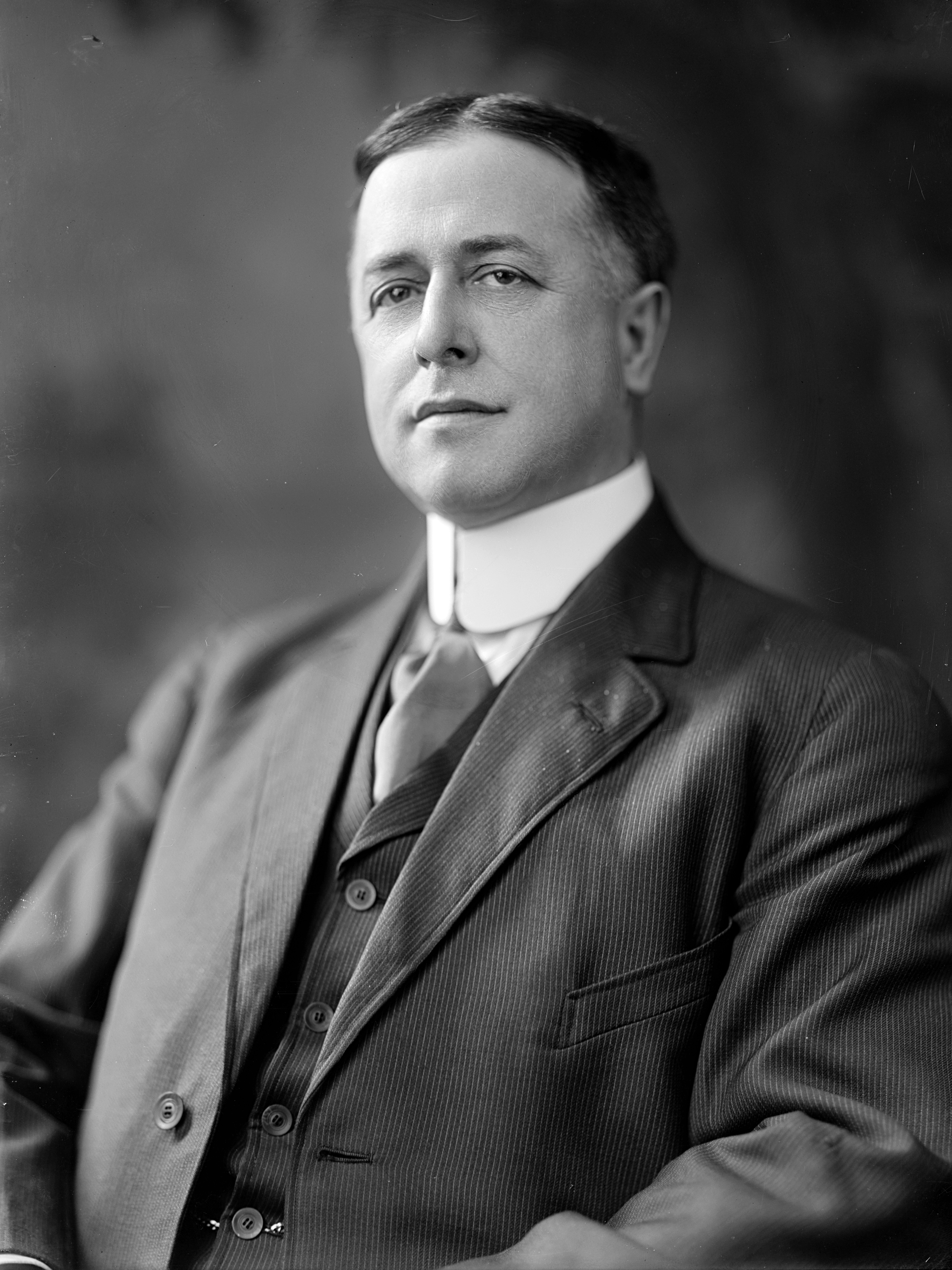 Arthur Ringwalt Rupley, US Representative from Pennsylvania